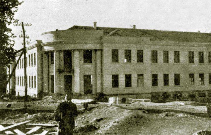 Gjimnazi "Gjon Buzuku"